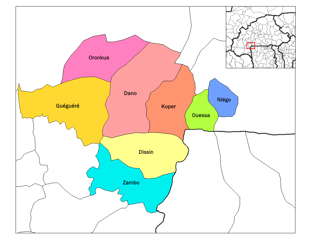 This map has been uploaded by Osiris fancy from to enable the Wikimedia Atlas of the World. Original uploader to was Rarelibra. Osiris fancy is not the creator of this map. Licensing information is below. Map of the departments of Ioba province in Burkina Faso. Created by Rarelibra 03:20, 30 September 2006 (UTC) for public domain use, using MapInfo Professional v8.5 and various mapping resources.